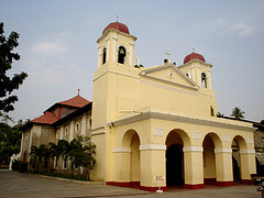 church